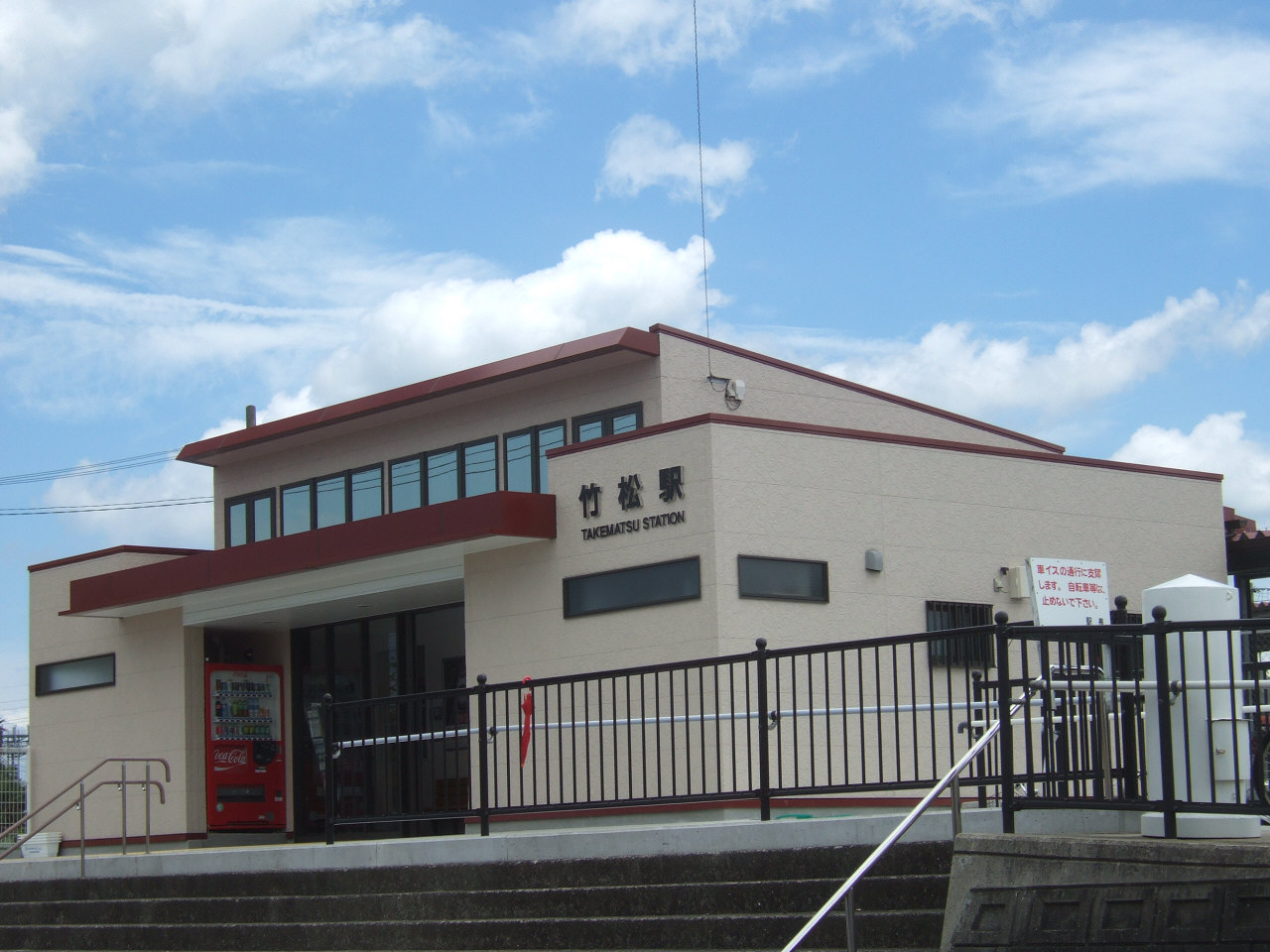 Takematsu Station（JR-Kyushu Omura Line）